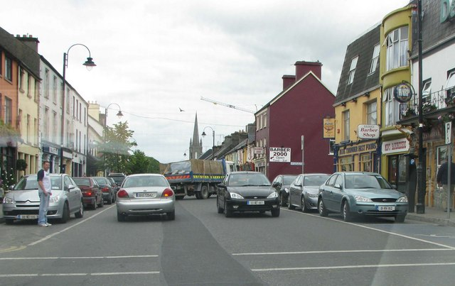 Busy part of Claremorris